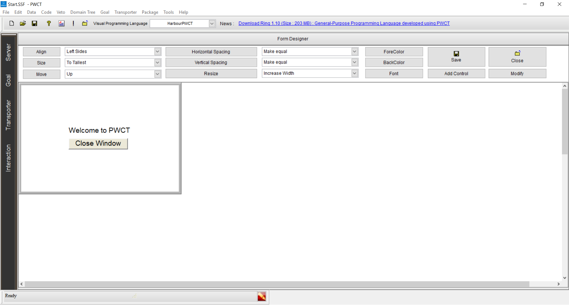 PWCT 1.9 - Form Designer